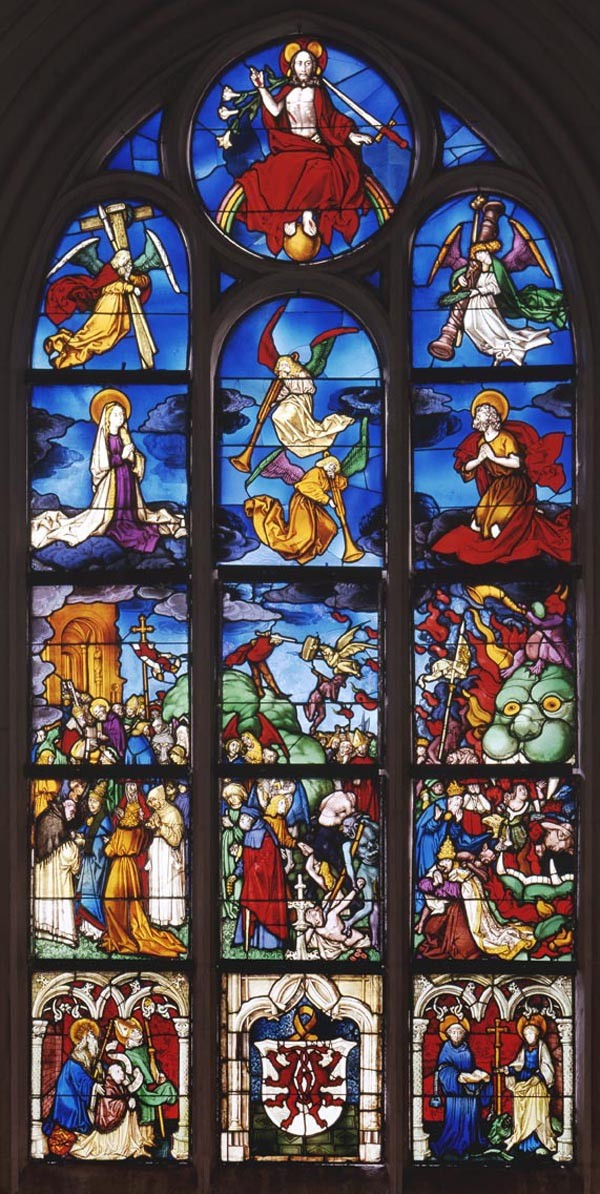 Last Judgement, stain glass panel, Eichstätt